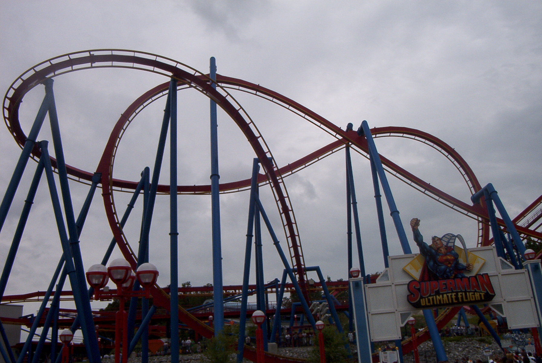 The entrance of Superman: Ultimate Flight at Six Flags over Georgia (Austell, Georgia)